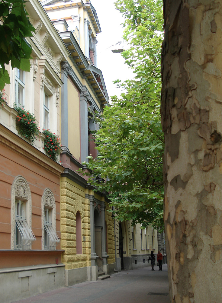 Convent Chapel, Miskolc, Hungary